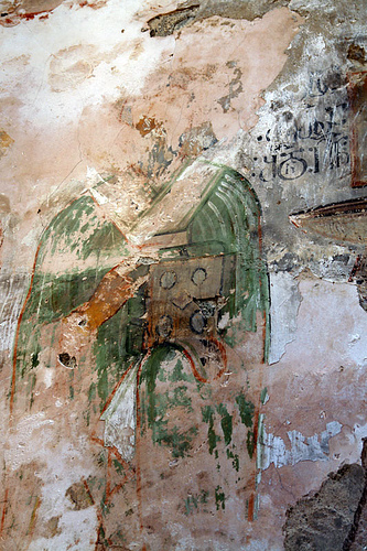 Doliskana (Tao-Klarjeti) was finished in mid 10th century, in times of Sumbat Kuropalat. It is located on the right bank of Imeriskhevi River. Doliskana is a cross-dome church